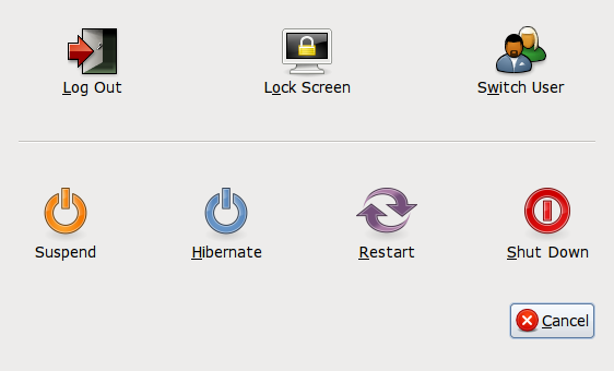 The shutdown window of Ubuntu.